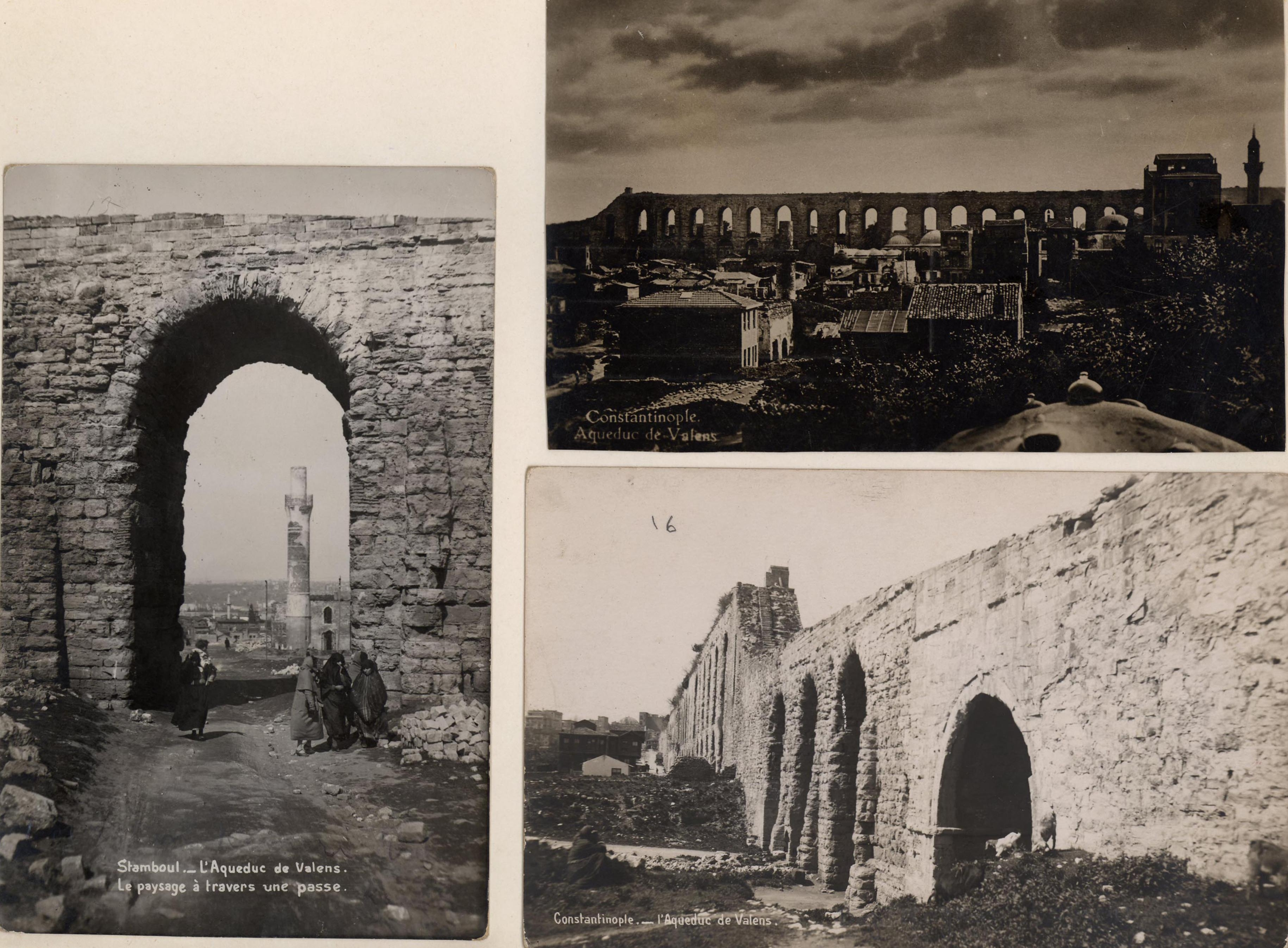 Bozdoğan Aqueduct (also known as Valens Aqueduct) was built around the late Roman and early Byzantine period. Although the precise date is uncertain, it was probably completed during the reign of Roman emperor Valens at the end of the 4th century. One of the main conduits, that provided water to Constantinople in the middle ages, the aqueduct was renovated by several sultans in the Ottoman Period and retained its important function throughout this time. Today, 921 meters of the original 971-meter-long structure still stand. SALT Research, Ali Saim Ülgen Archive Valens Akuadükü olarak da bilinen Bozdoğan Su Kemeri, bir geç Roma-erken Bizans dönemi yapısıdır. 4. yüzyılda, Roma imparatoru Valens döneminde yapıldığı tahmin edilmektedir. Orta Çağ’da İstanbul’un su ihtiyacının çoğunu karşılayan kemer, Osmanlı İmparatorluğu süresince -başta Fatih Sultan Mehmet olmak üzere- birçok padişah devrinde onarılarak bu işlevini sürdürmüştür. Orijinal uzunluğu 971 metre olan yapının 921 metresi hâlen ayaktadır. SALT Araştırma, Ali Saim Ülgen Arşivi